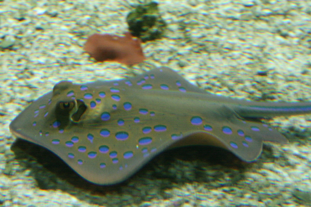 Taeniura lymma (Blue-spotted Sting-ray) at Océanopolis, Brest, France